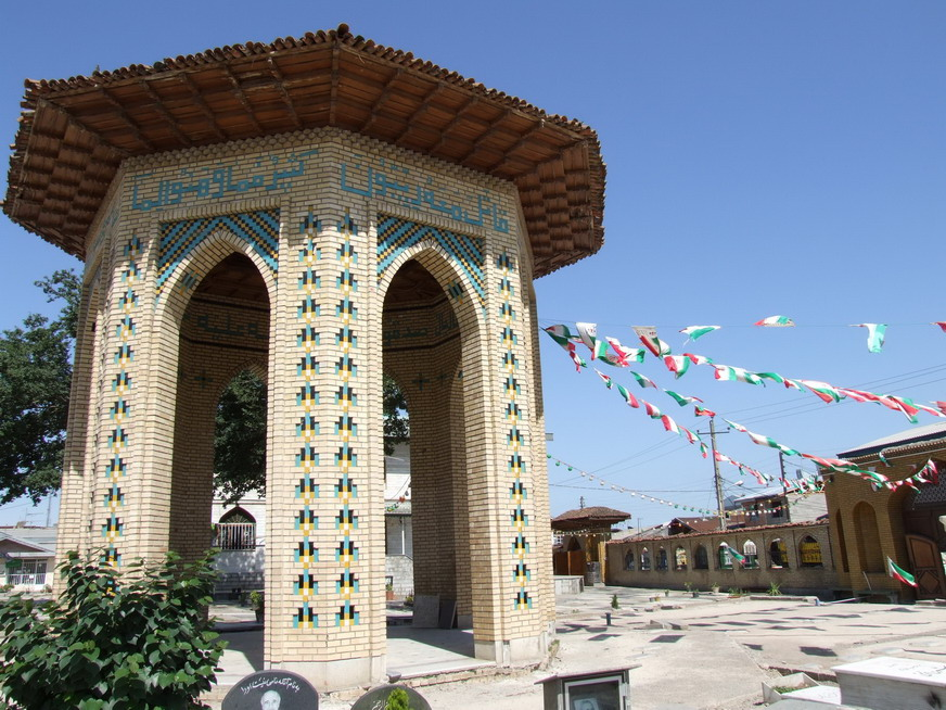 this picture taken from Mirza kochak khan tomb in Rasht (Khordad 1387)